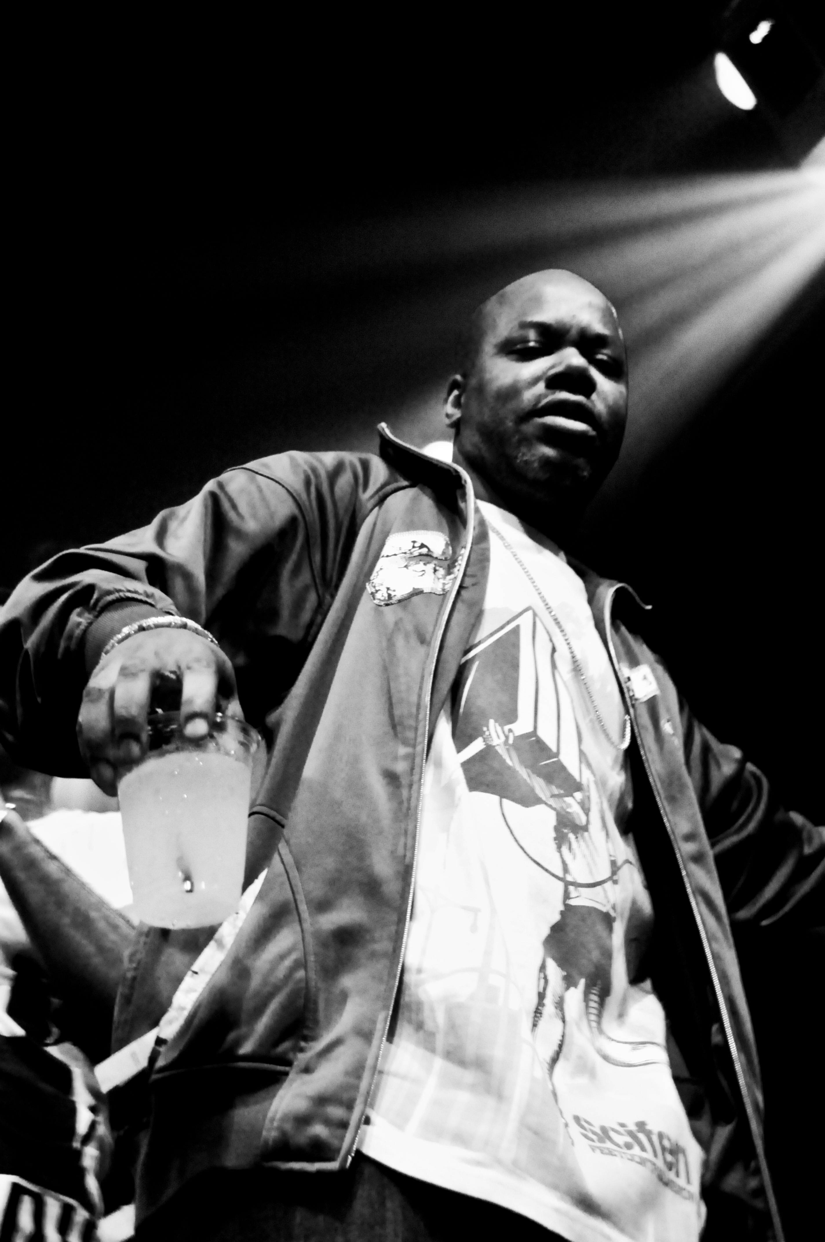 Too Short makes a surprise appearance at Martin Luther's Rebel Soul Fest at DNA Lounge in San Francisco, July 2008